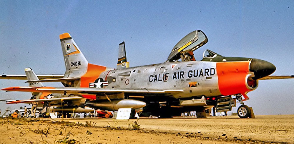 194th Fighter-Interceptor Squadron North American F-86L-60-NA Sabre 53-0739.